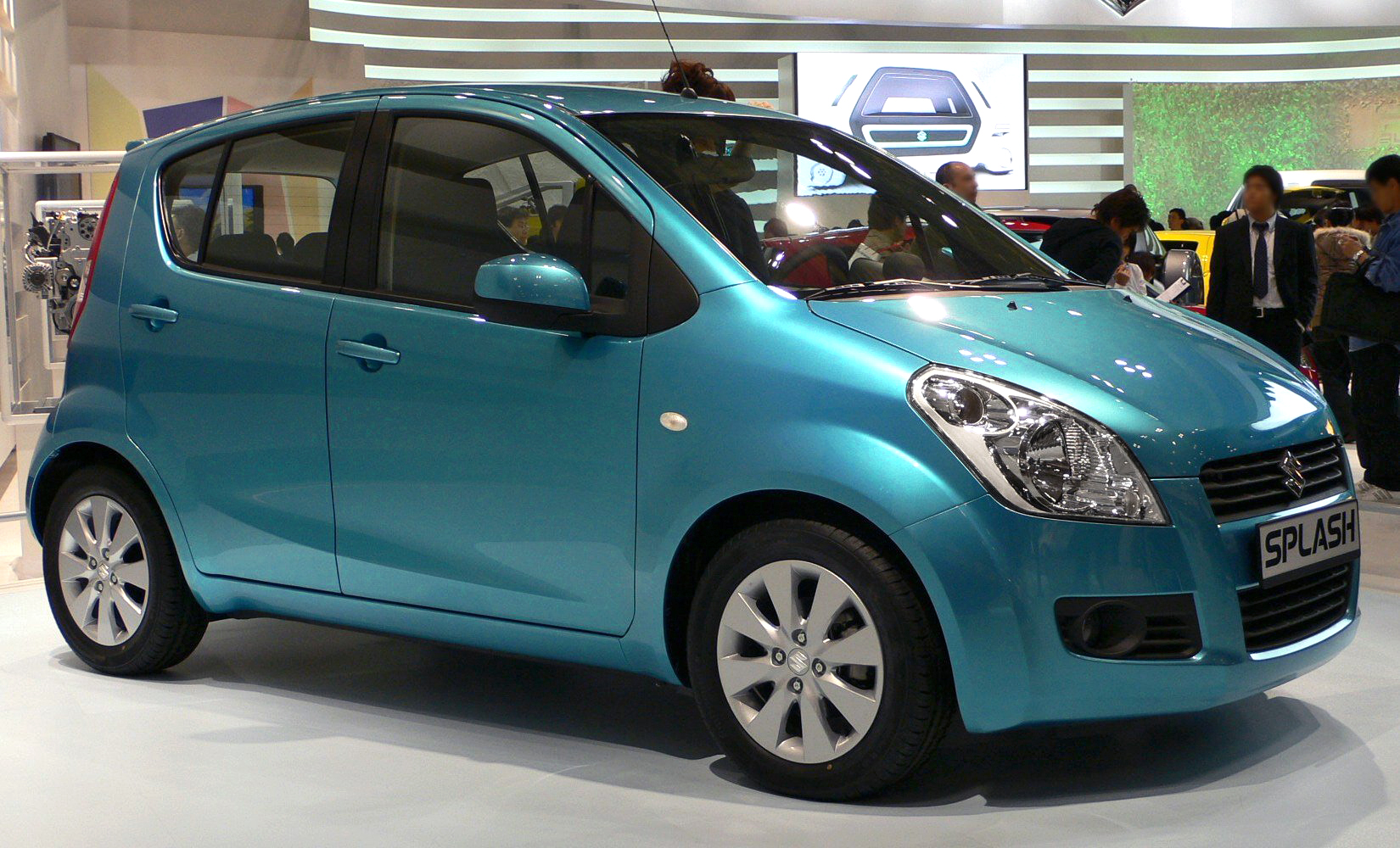 Suzuki Splash photographed in Tokyo Motor Show 2007